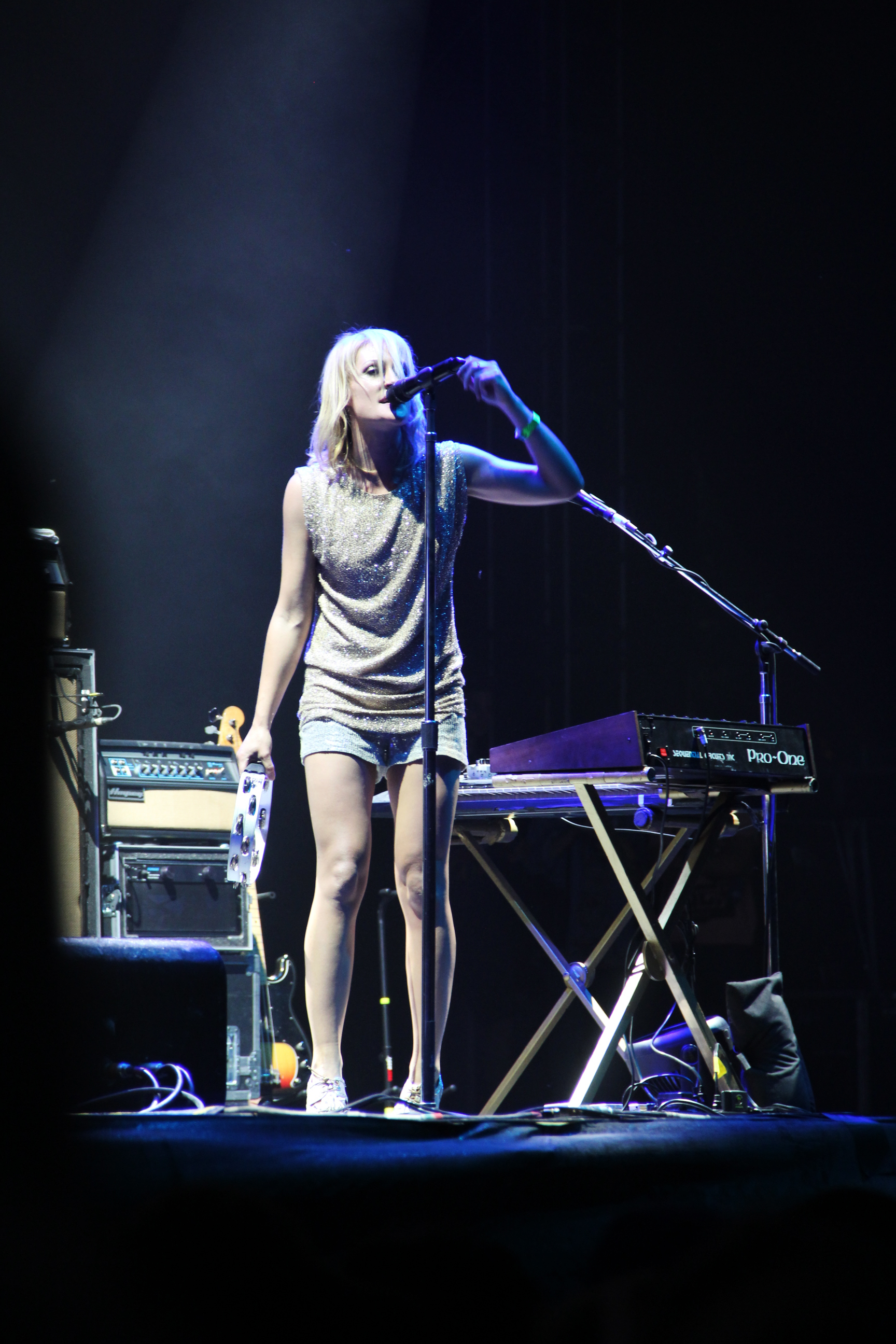 Emily Haines, lead singer of the band Metric, performs at Osheaga Festival in Montreal, Québec, Canada, on 1 August 2010.